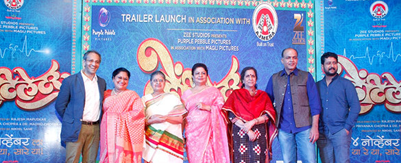 The cast and crew of Ventilator